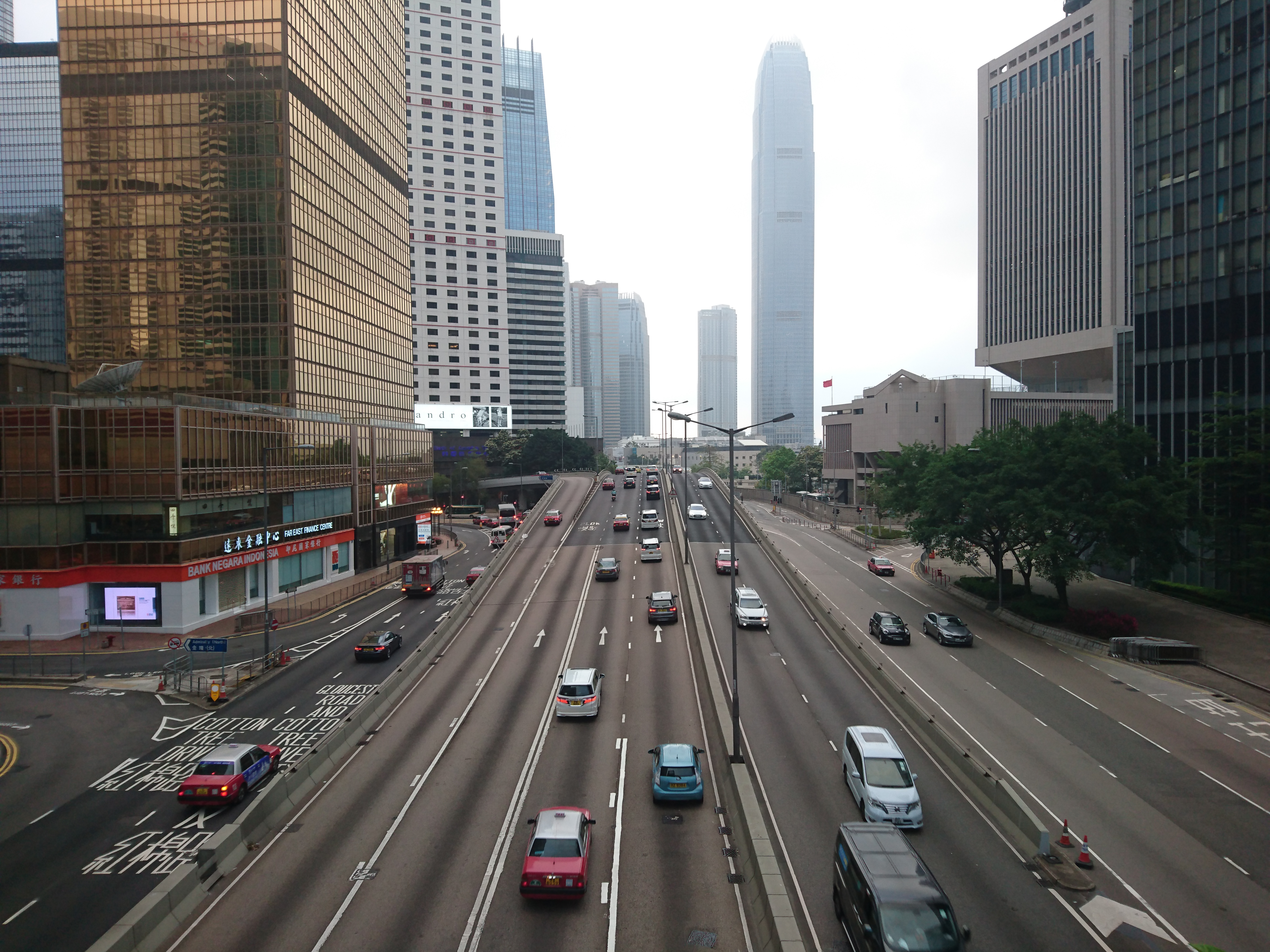 Harcourt Road Flyover East Entrance in 2018